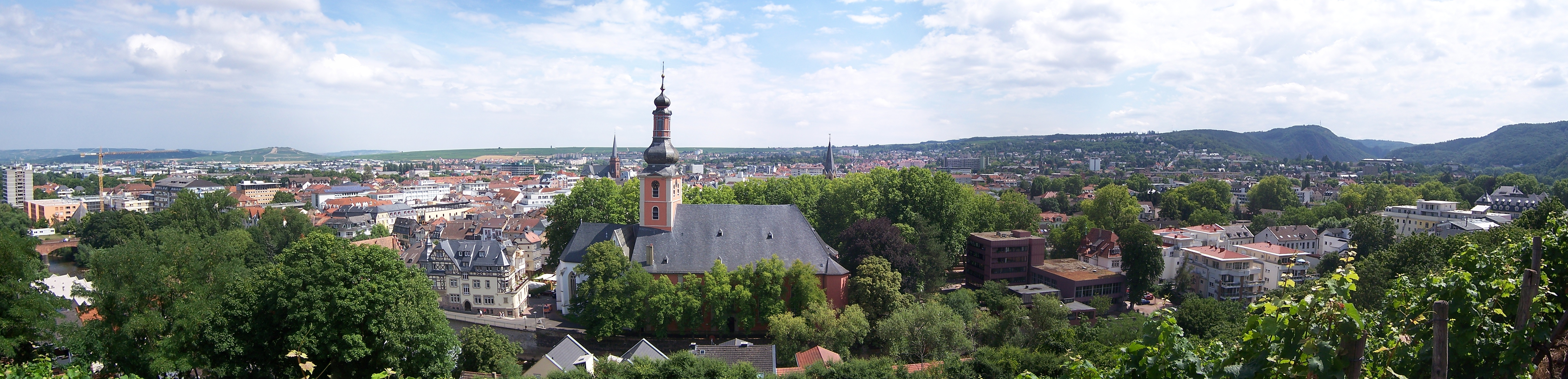 Panoramic view on Bad Kreuznach from north to south